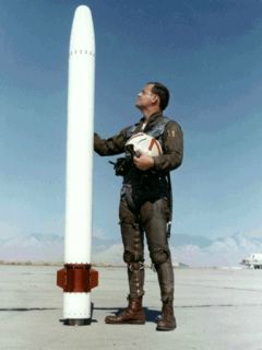 US Navy photo from China Lake Alumni collection